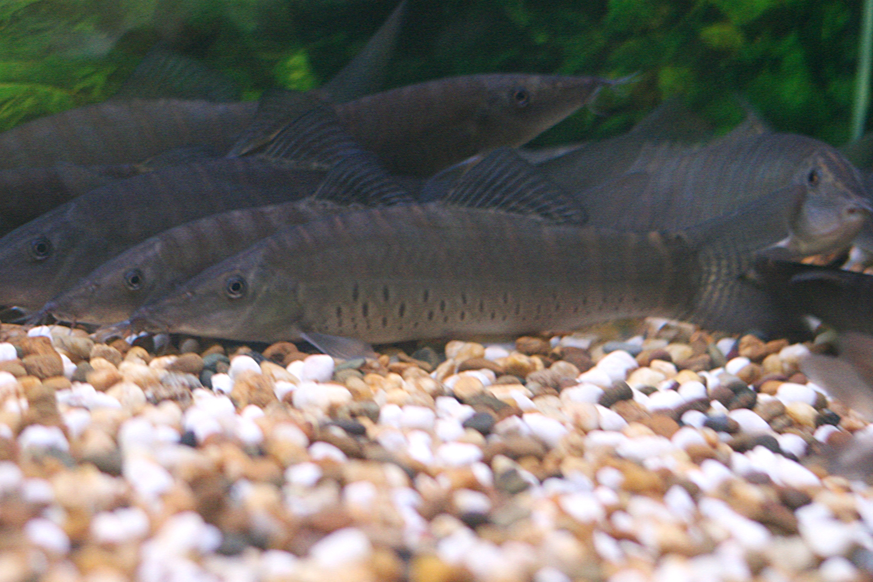 Syncrossus helodes. Size about 12cm SL.